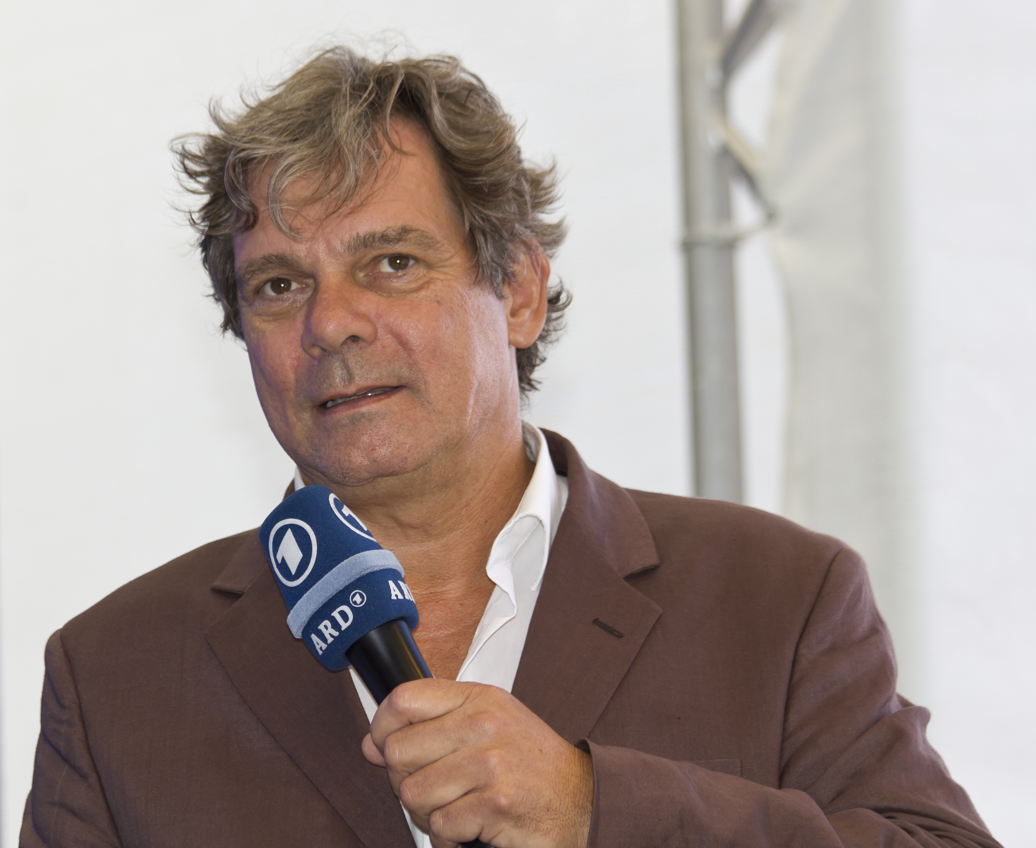 Stephan Ziegenhagen, a TV journalist from Germany